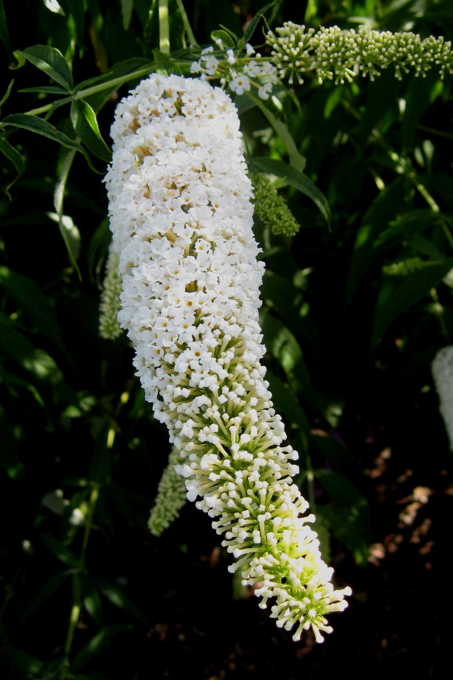 Photo of Buddleja cultivar 'White Cloud' taken at Longstock Park, UK, August 2012